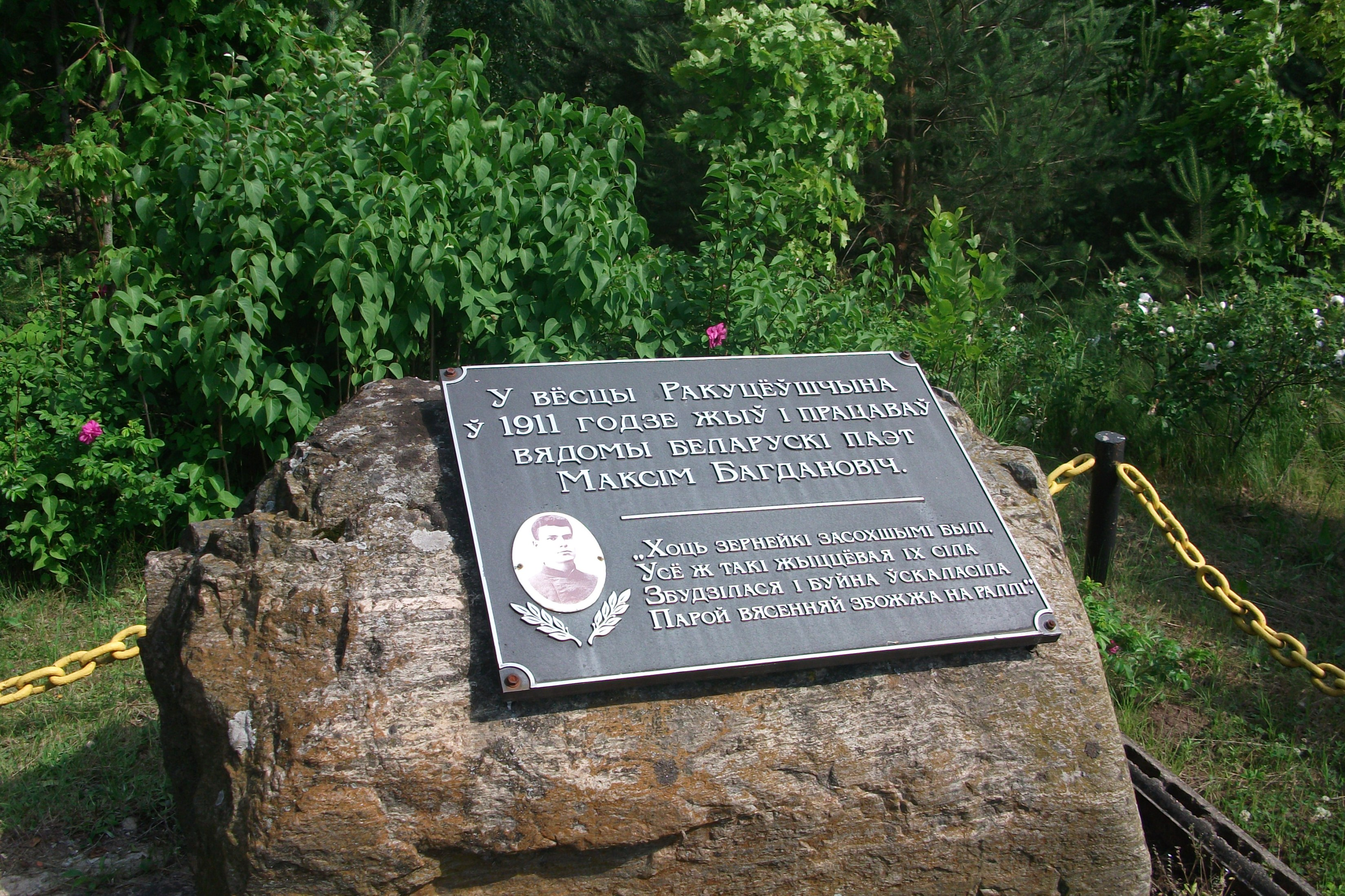 Сommemorative tablet to Maksim Bahdanovič in Rakutsyouschyna This is a photo of Belarusian heritage monument. Reference number: 612Д000316 ( WLM)